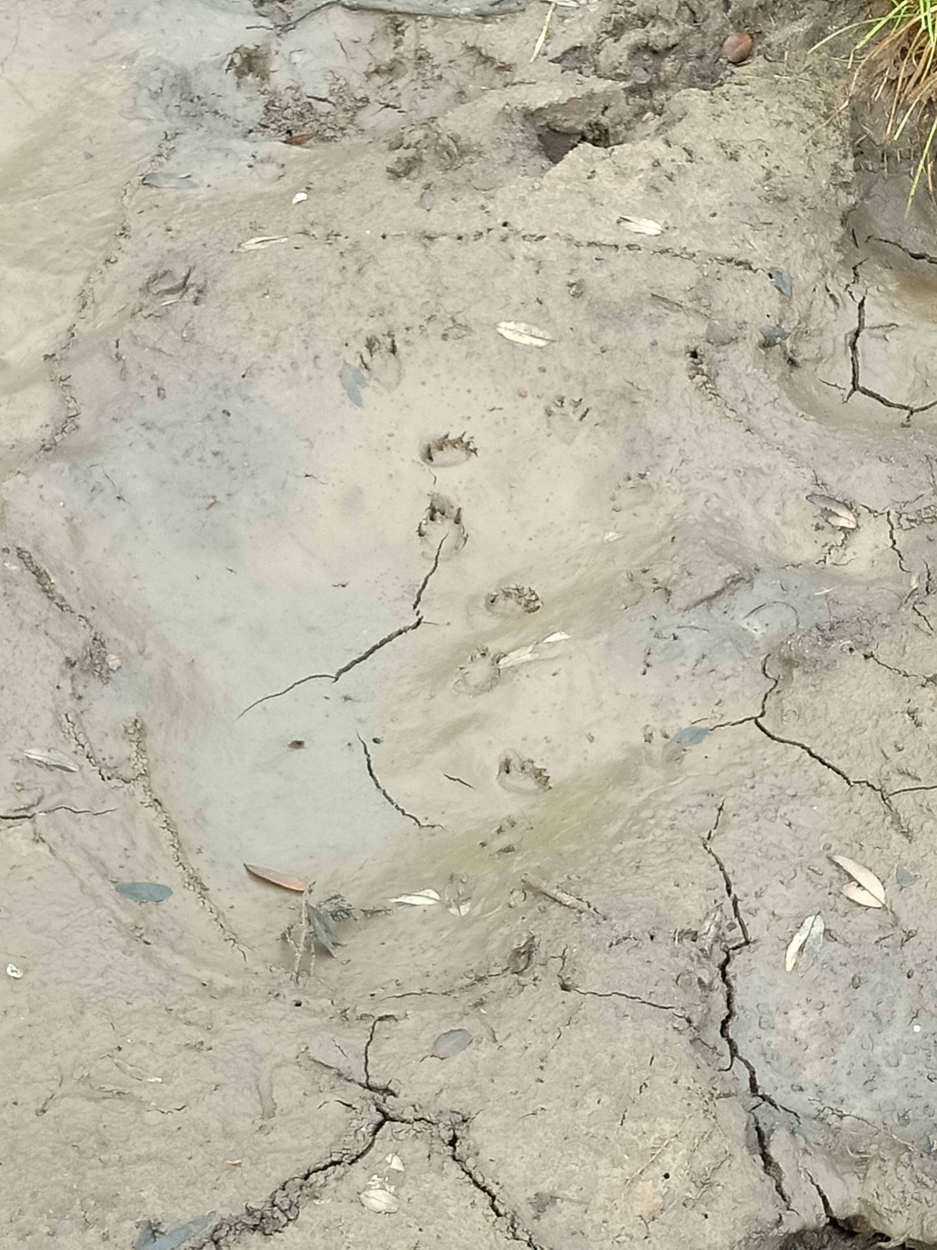 Star-tortoise footprint, Biligirirangan Hills